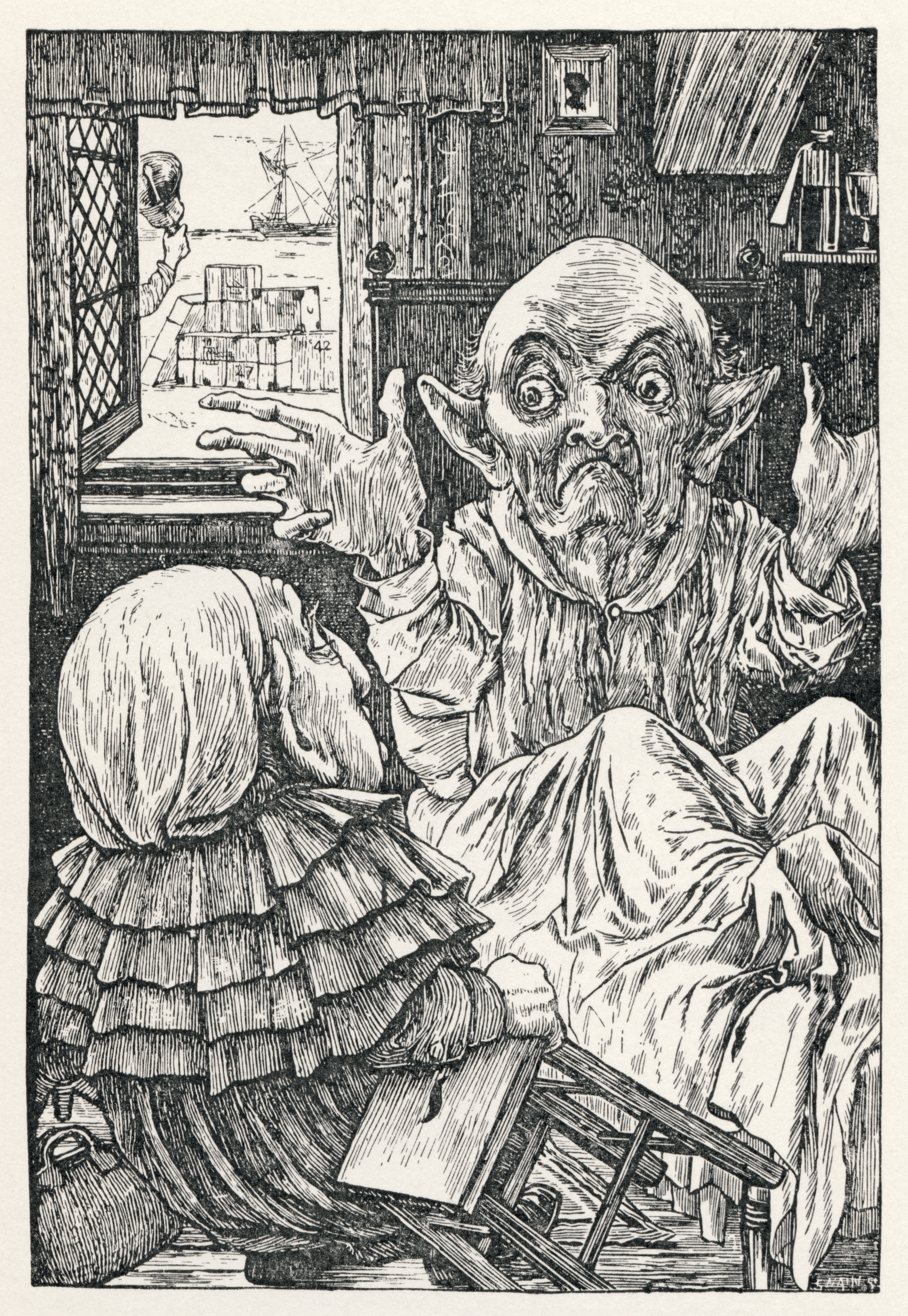 Fifth of Henry Holiday's original ilustrations to "The Hunting of the Snark" by Lewis Carroll. From Fit the Third: The Baker's Tale. The Baker says his uncle told him that: "But oh, beamish nephew, beware of the day, If your Snark be a Boojum! For then You will softly and suddenly vanish away, And never be met with again!" See also Plate 10.